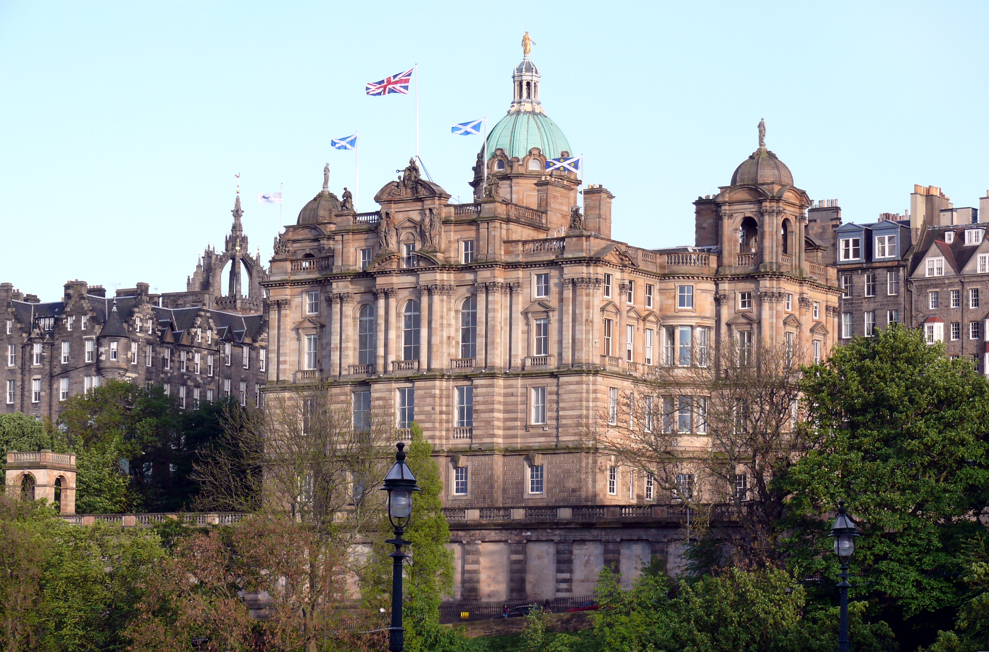 The headquarters of the HBOS plc in Edinburgh.